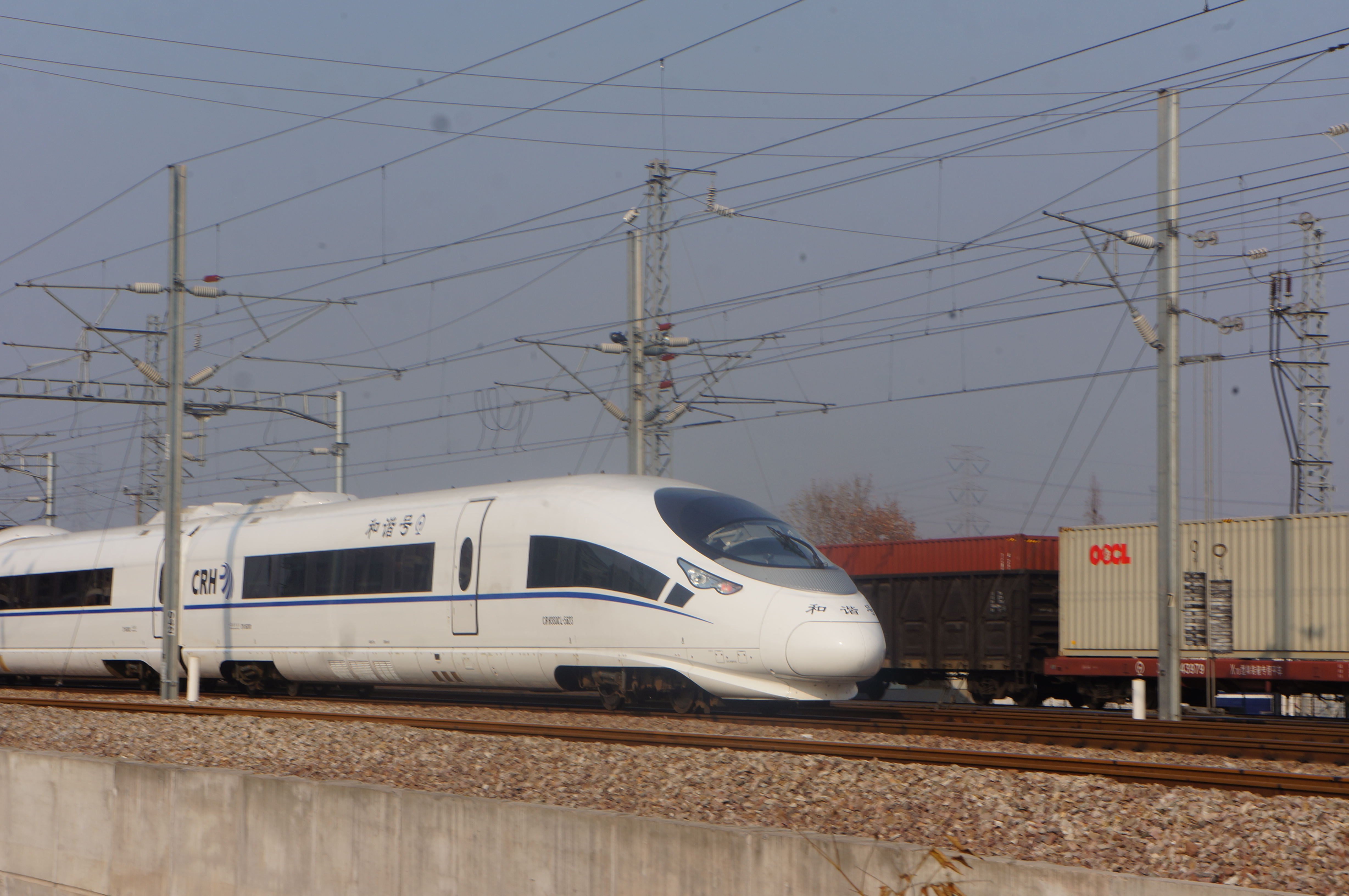 201712 CRH380CL-5623 operates for G7592 from Wenzhounan to Anqing approaches to Jinhuanan Station